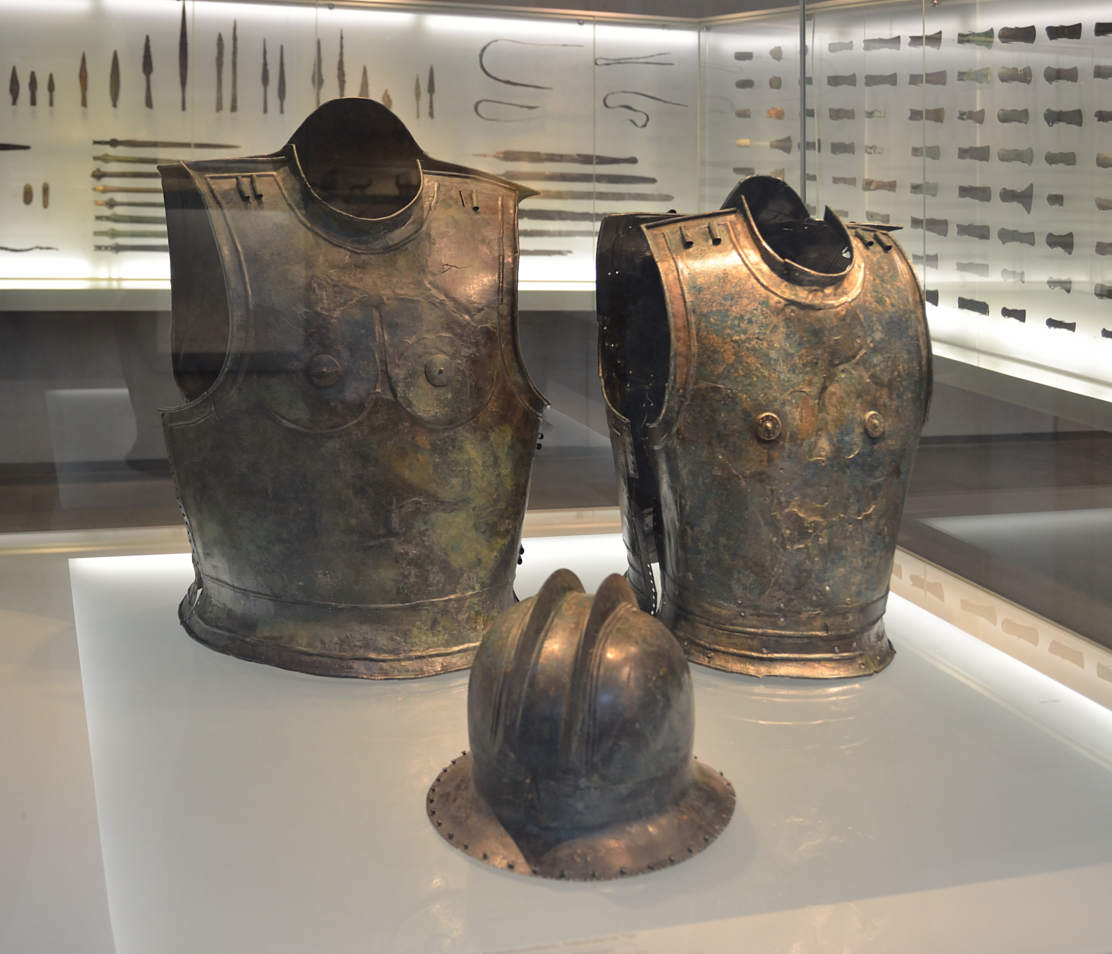 2 muscle cuirasses and double ridge helmet (1. third of 6. century BC. Kröllkogel). Hallstatt culture artefact found in Kleinklein, municipality of Großklein, Styria. The artefact is exposed at the Archaeology Museum in Schloss Eggenberg, Graz